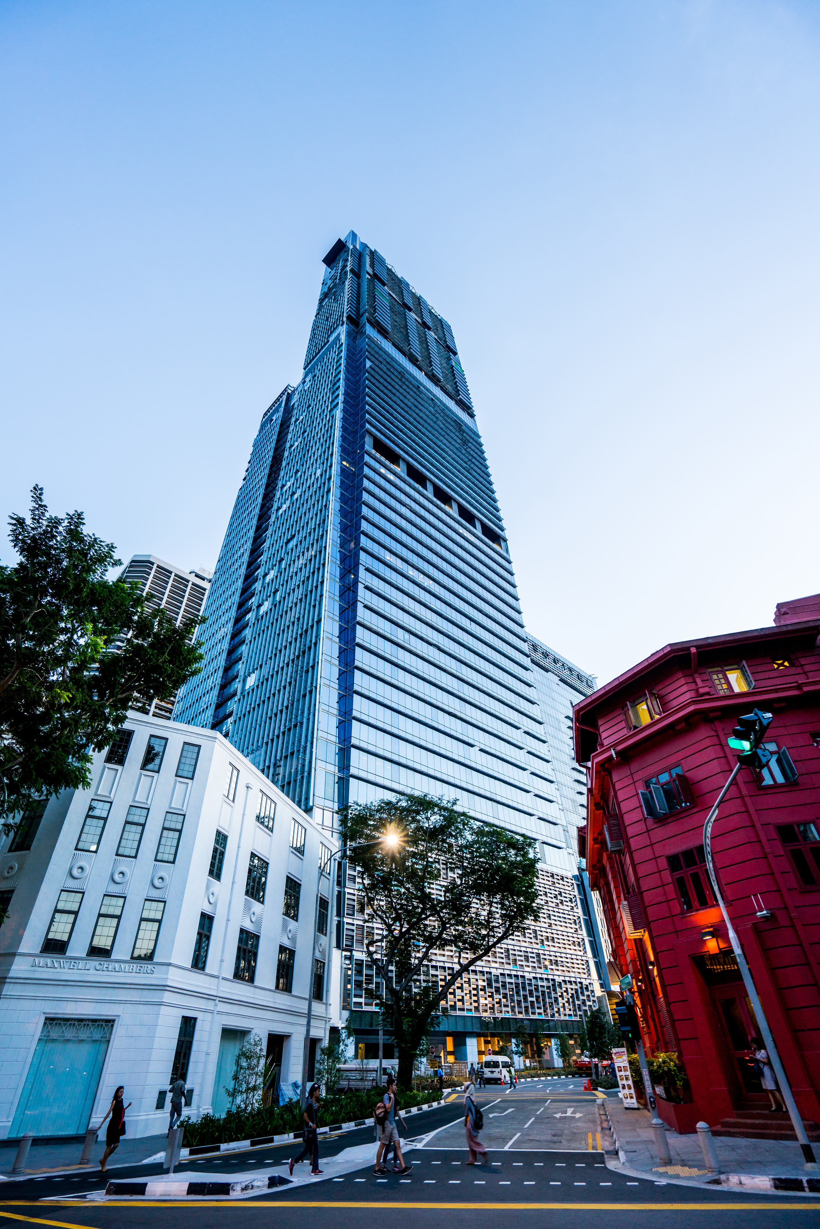 The tallest building in Singapore